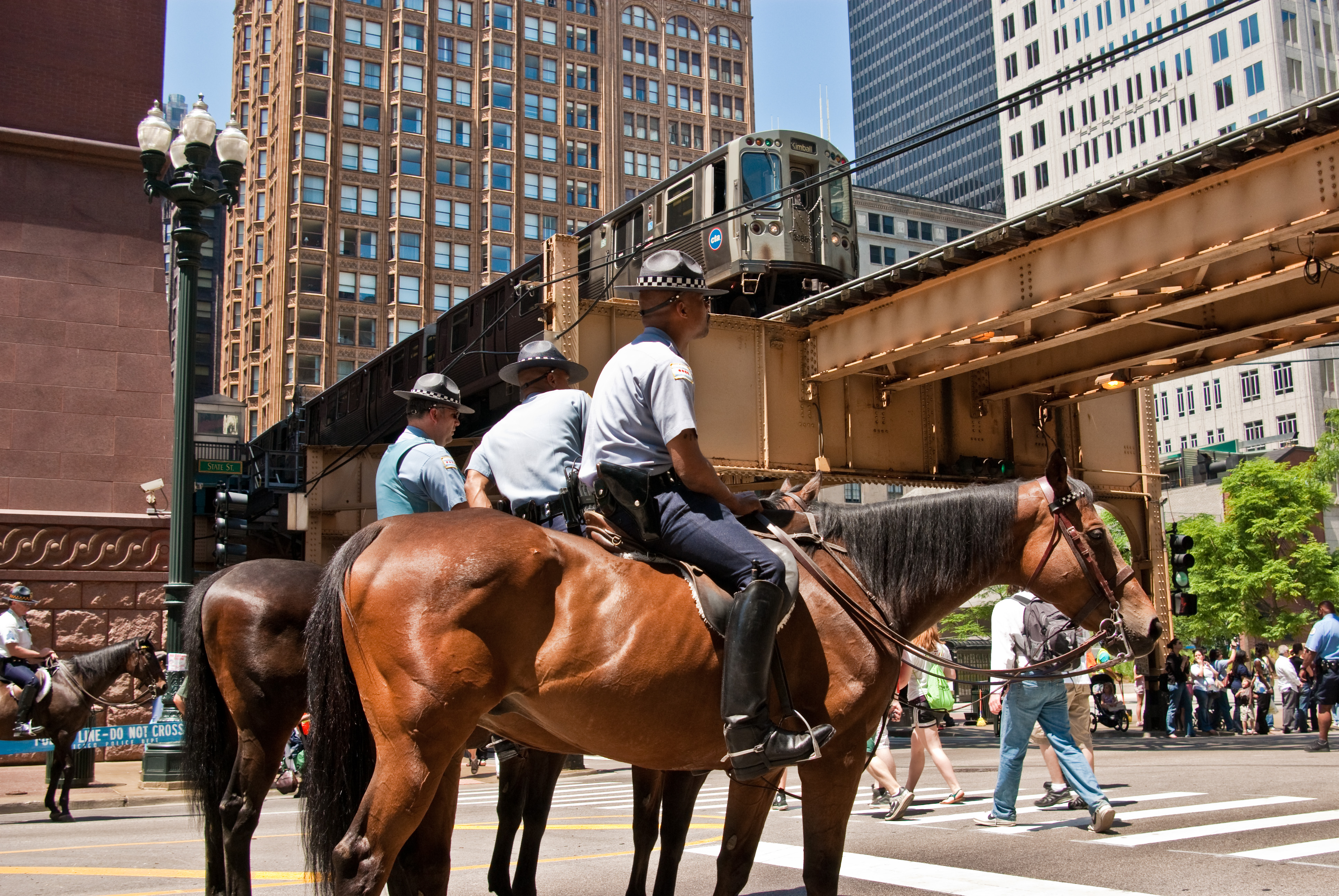 Chicago 'L'